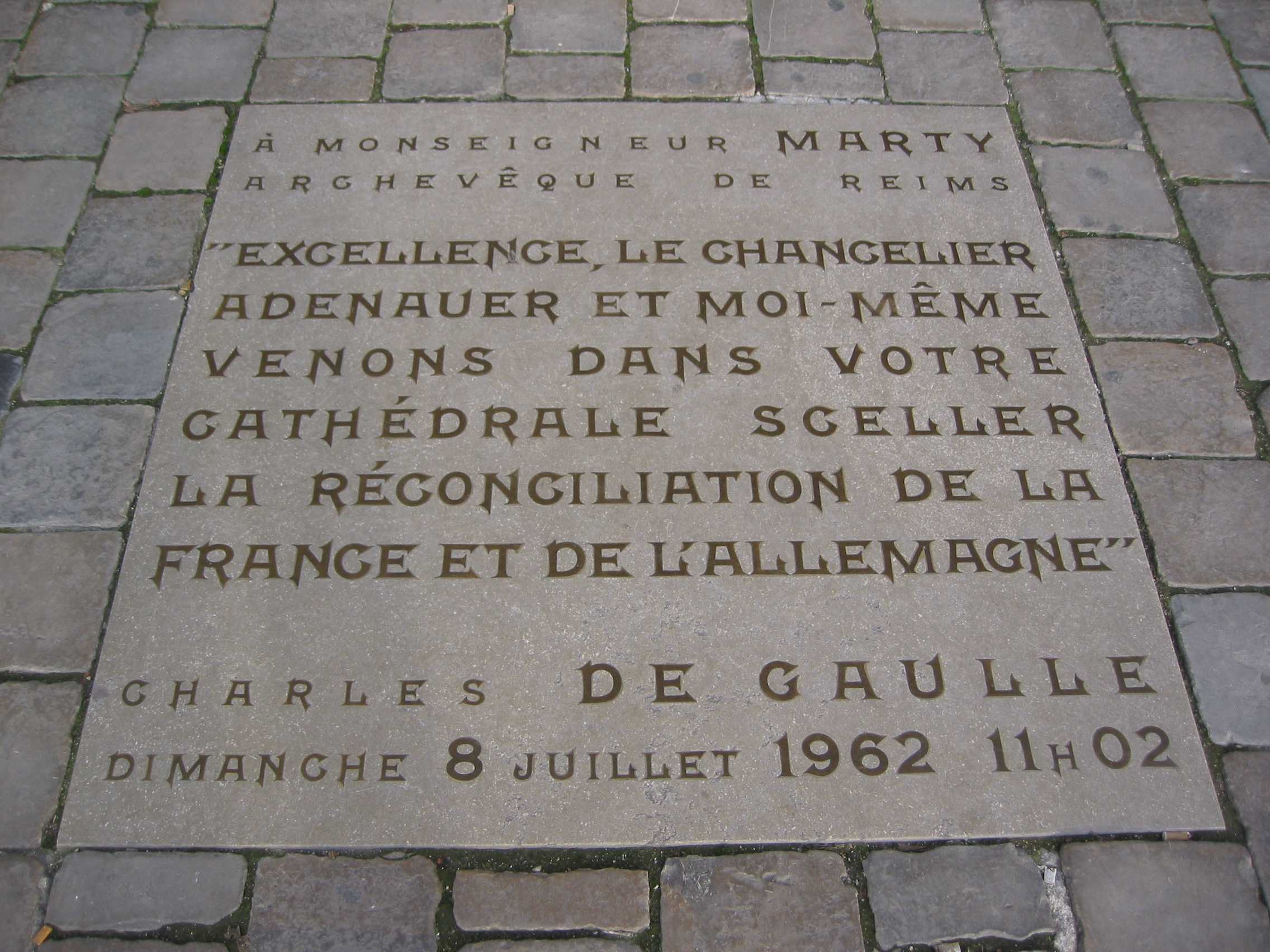 Floor tile in front of Reims Cathedral, reading,To Monseigneur Marty, Archbishop of Reims, „Excellency, Chancellor Adenauer and myself are coming to your cathedral to seal the reconciliation of France and Germany.“ Charles de Gaulle, Sunday, July 8, 1962, 11.02 a.m.